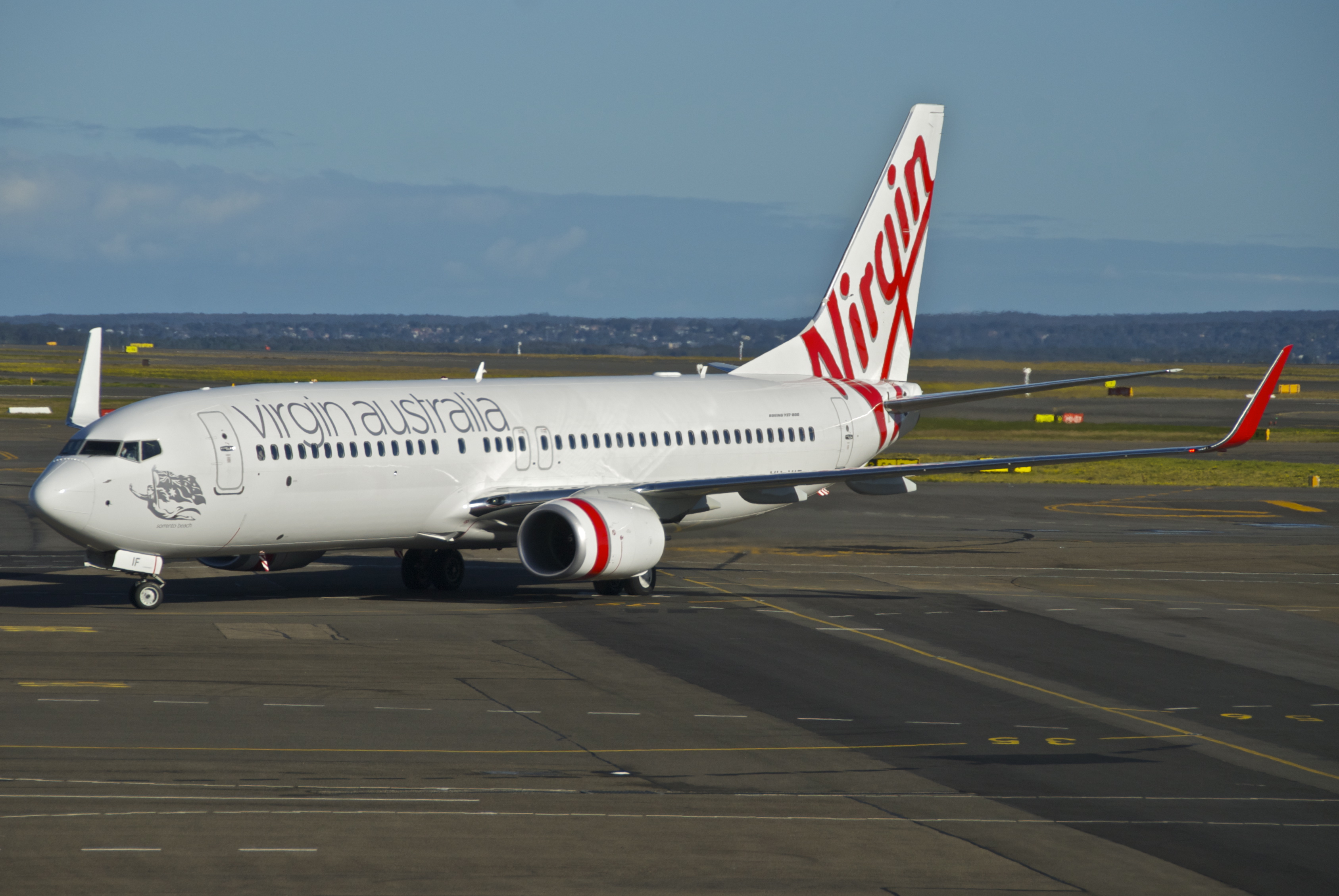 Virgin Australia Boeing 737-800; VH-YIF@SYD;06.07.2012/661cp